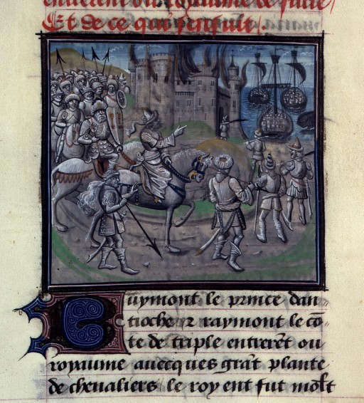 Saladin incendiant une ville (Saladin burning a city)